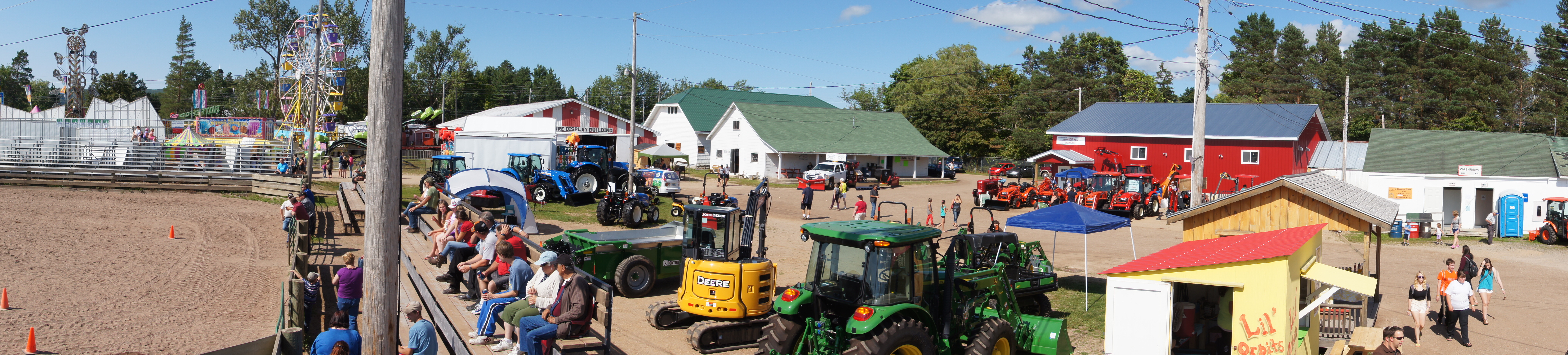 The Lawrencetown Exhibition in early August.